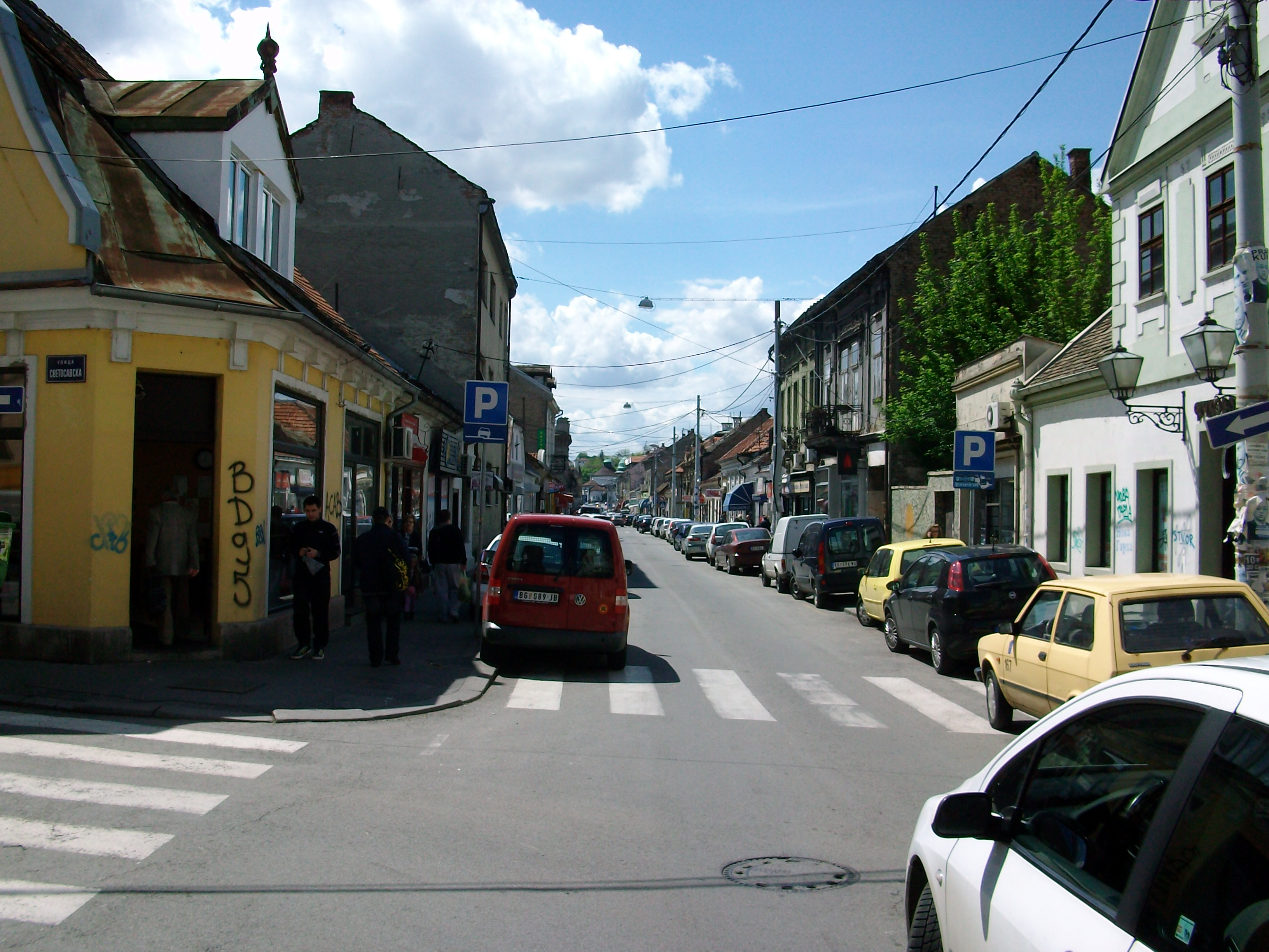 One of the streets in the part of Zemun called Muhar